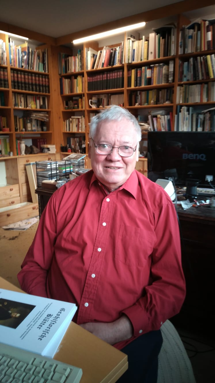 The German geologist and publisher Ulrich Wutzke in his study.